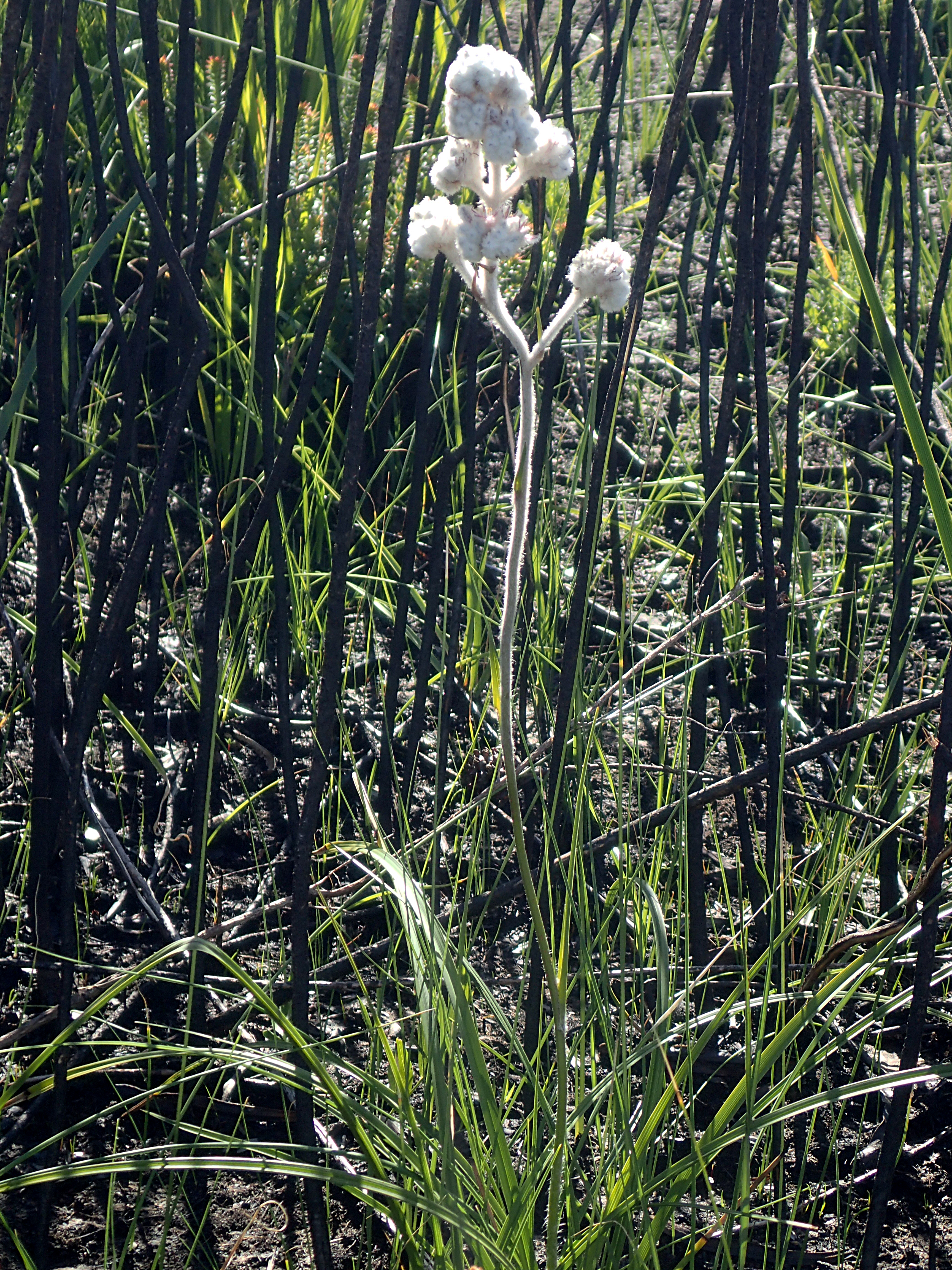 Lambstail Lanaria lanata, Kleinmond, Zuid-Afrika